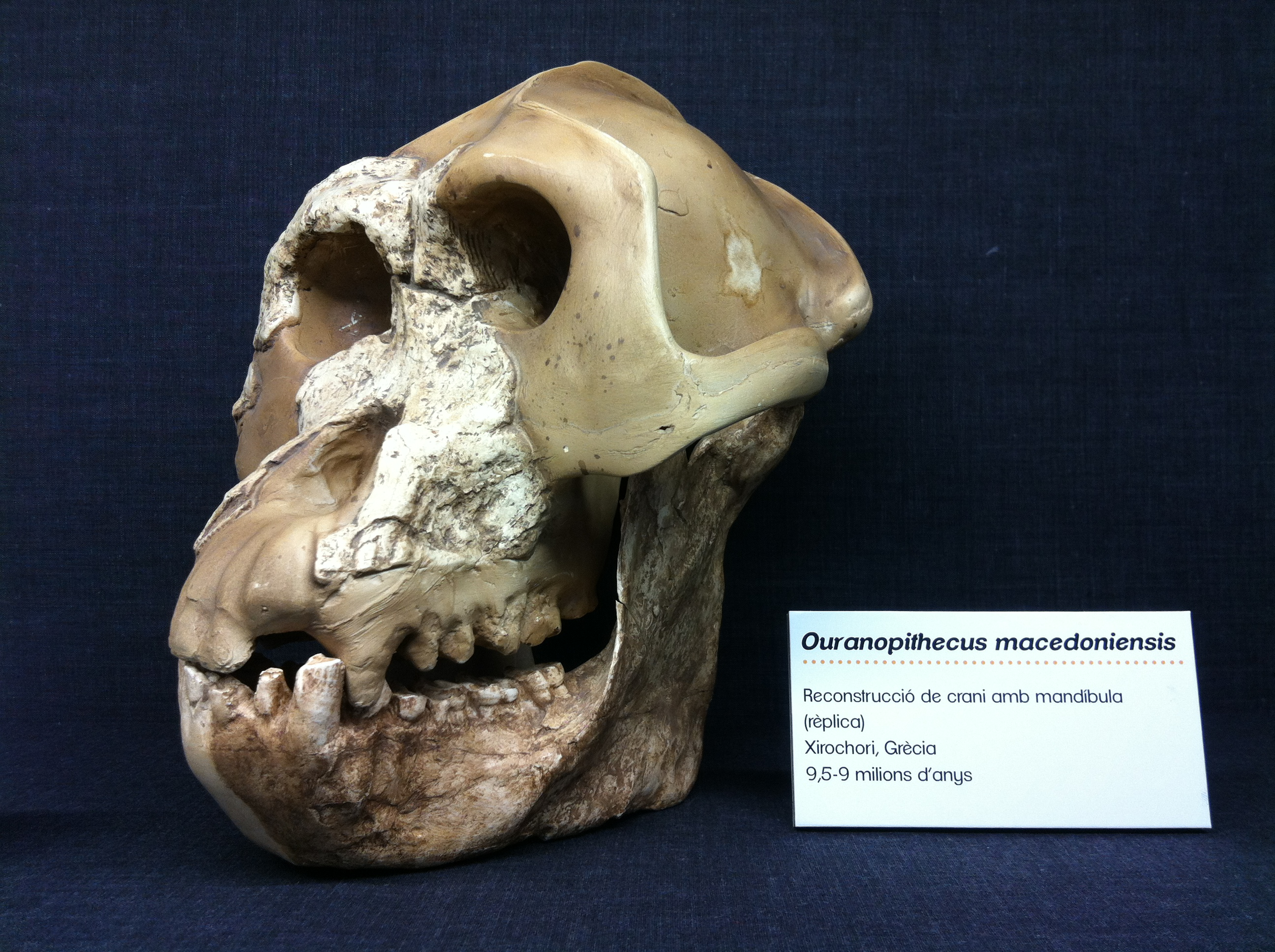 Gairebé humans (in Catalan): Almost humans exhibit at Institut Català de Paleontologia Miquel Crusafont, in Sabadell (Catalonia) 2012-2013